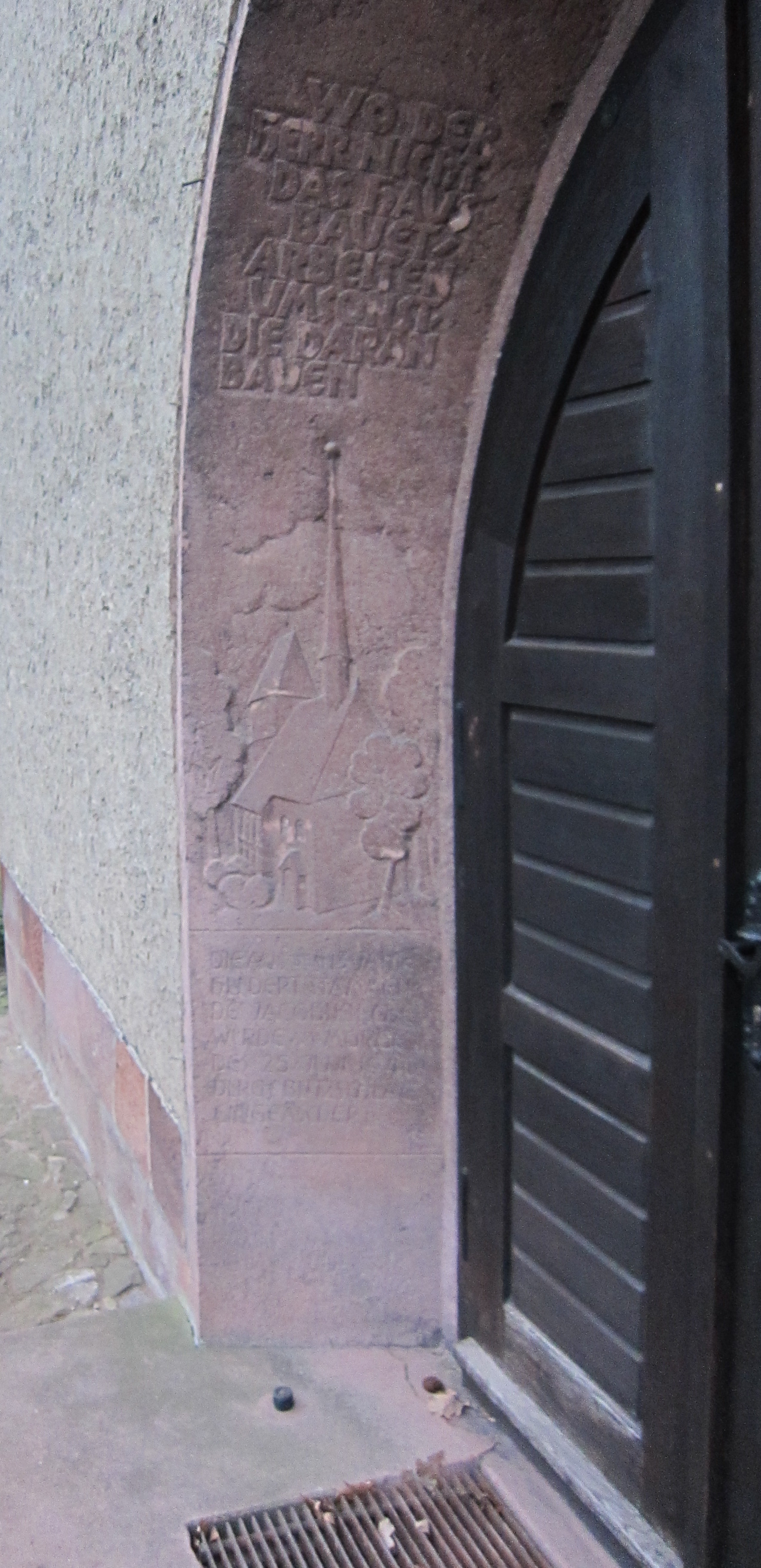 Stone relief on the church of the village of Lohma on the Leina (Langenleuba-Niederhain, district of Altenburger Land, Thuringia)